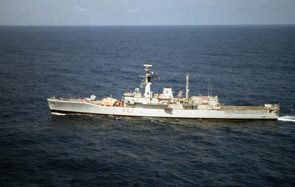 DNSC9011423 A port beam view of the British frigate HMS ANDROMEDA (F-57) underway off the coast of Liberia.